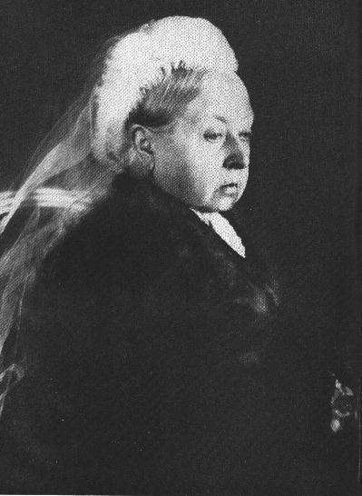 One of the last photographs taken of Queen Victoria, c. 1900